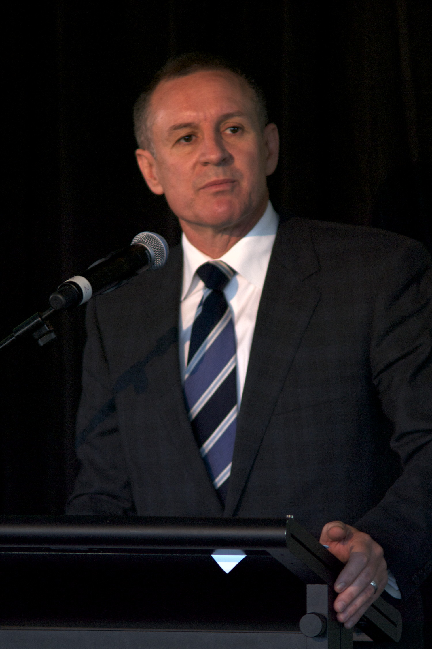 Jay Weatherill speaking at the launch of the Uniting Communities rebranding, Adelaide Oval, Adelaide, South Australia.